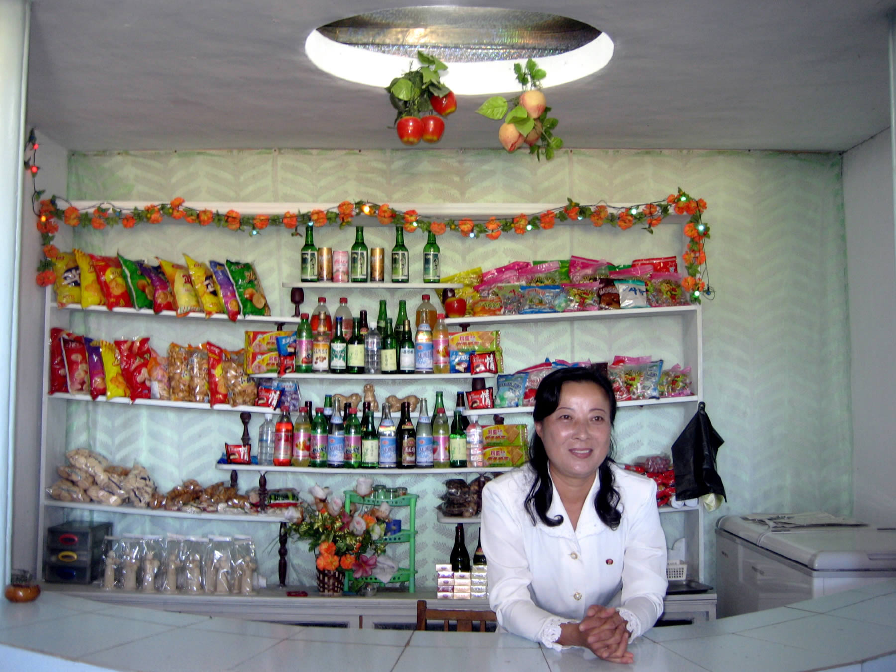 A well stocked shop at the Chonsam Cooperative Farm near Wonsan. There are things to buy in the DPRK.